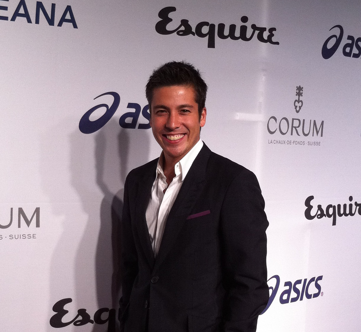 A photo of actor Max Loong.